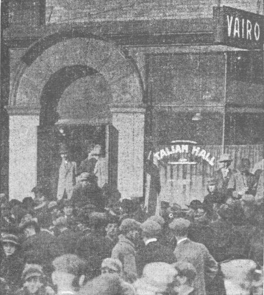 The doorway to Italian Hall in 1913 with a crowd in front. On the window is a sign saying "Italian Hall" and there is a sign hanging off the building saying "Vairo"